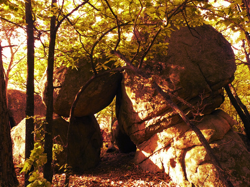 Asara_Streltcha_BG